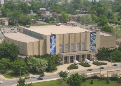 Photo taken by submitter.